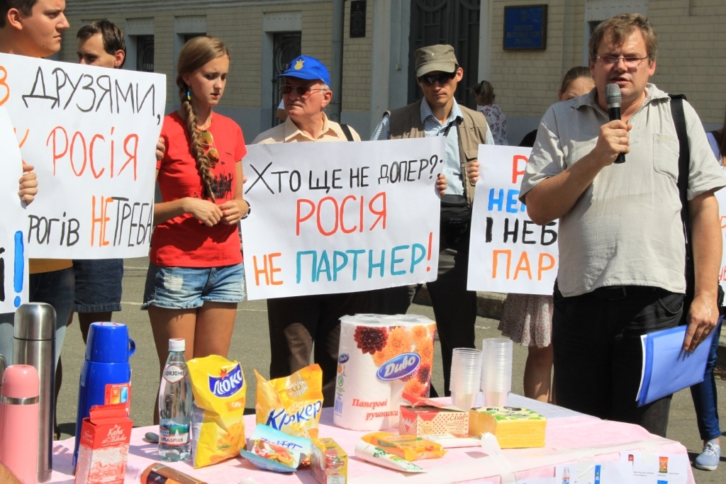 The action of "Vidsich" near Presidential Administration of Ukraine to an adequate response to the boycott of Ukrainian goods from Russian Federation. Picture made by activist of "Vidsich".